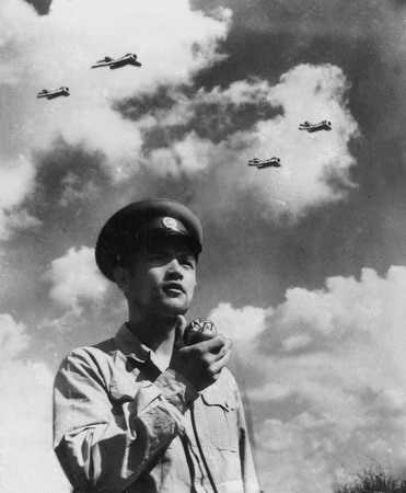 PLA Air Force pilot Lin Hu on 1956-10-01. Shantou Waisha Airport, Guangdong